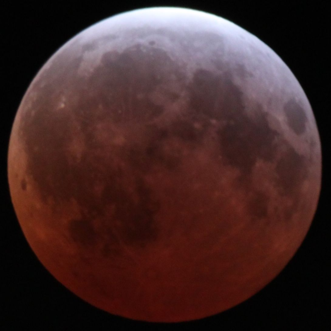 April 2015 lunar eclipse, near greatest eclipse, Taken with William Optics 90 mm f/6.3 Megrez APO Refractor mounted on a camera Tripod. Used a Canon T1i DSLR.